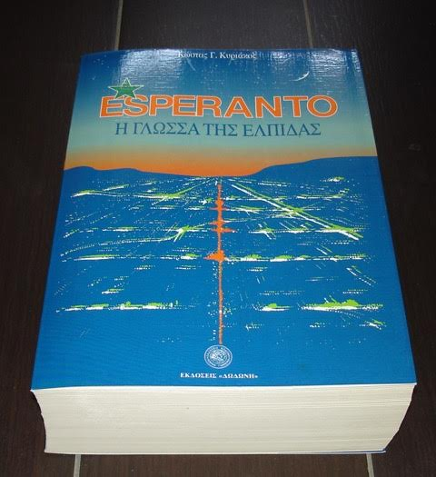 Book about Esperanto